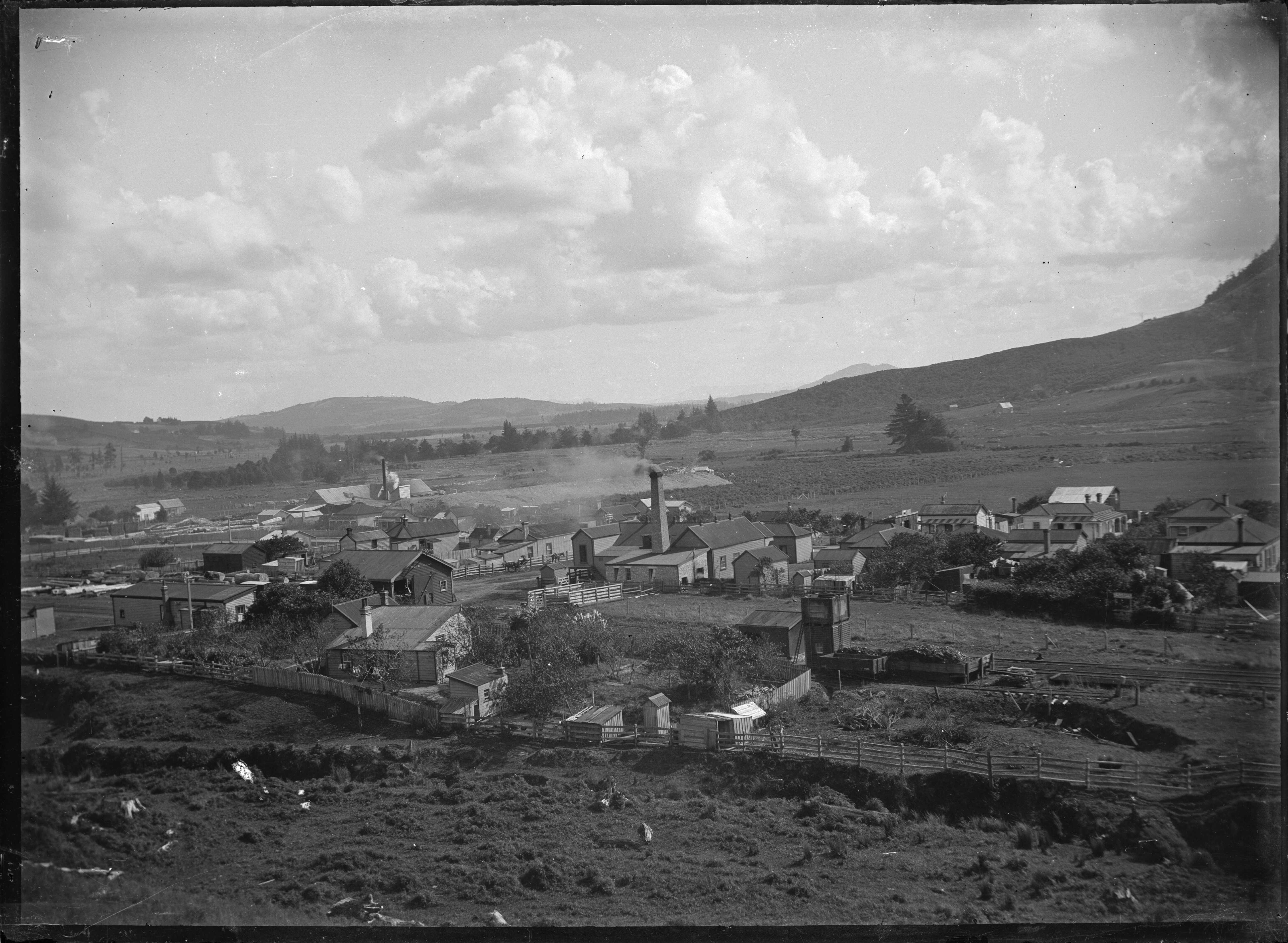 Hikurangi. Houses in a cluster, surrounded by paddocks. A factory chimney is smoking in the centre. Photograph taken by A P Godber in 1911.